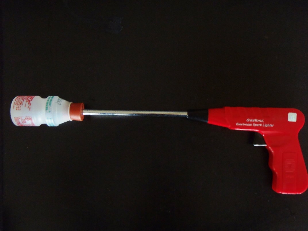 igniting H2-air mixed bottle